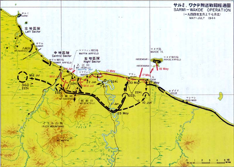 Japanese Sarmi-Wakde Operation, May-July 1944